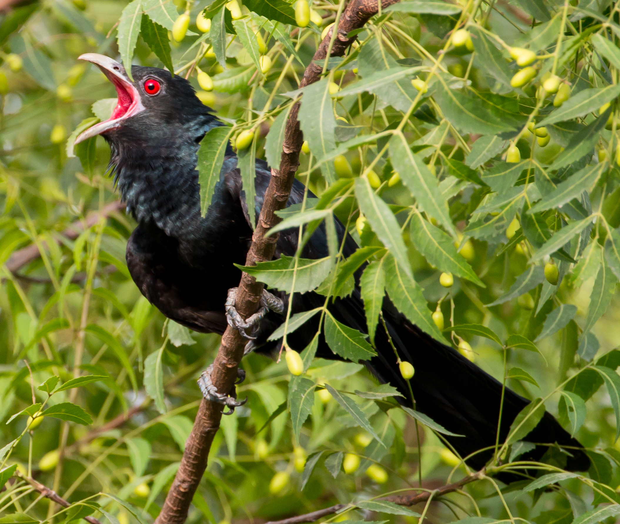 Asian Koel